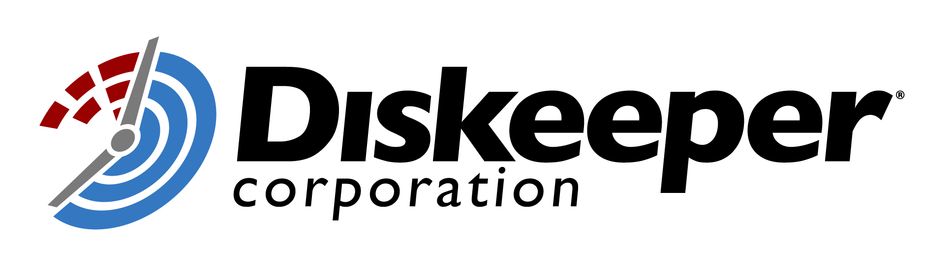 Logo of Diskeeper Corporation, renamed Condusiv Technologies on September 2011. This logo is no longer used.